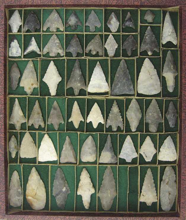 Collection box with neolithic artefacts of Léopold Reichling (1921-2009).